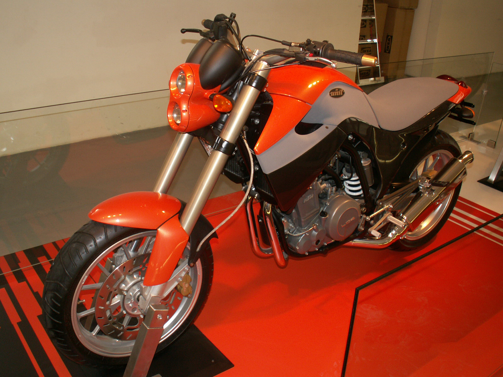 Never realized KTM Unit Prototype, fotographed at a exhibition in Vienna Design Forum march 2006 i seen u looking at me and you already know.